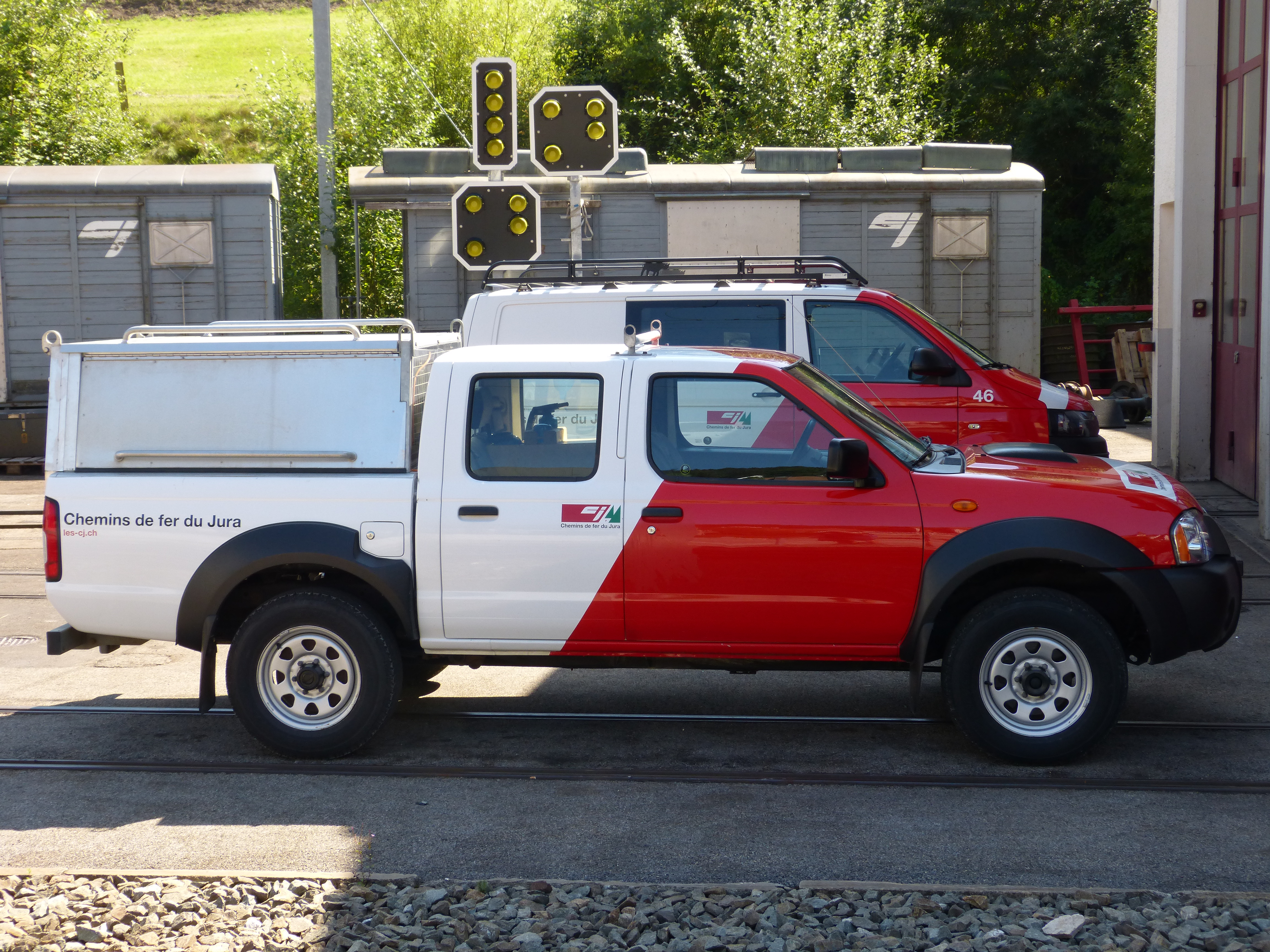 Road vehicles service from Chemins de fer du Jura (CJ) at the railway station of Tramelan, Bern.